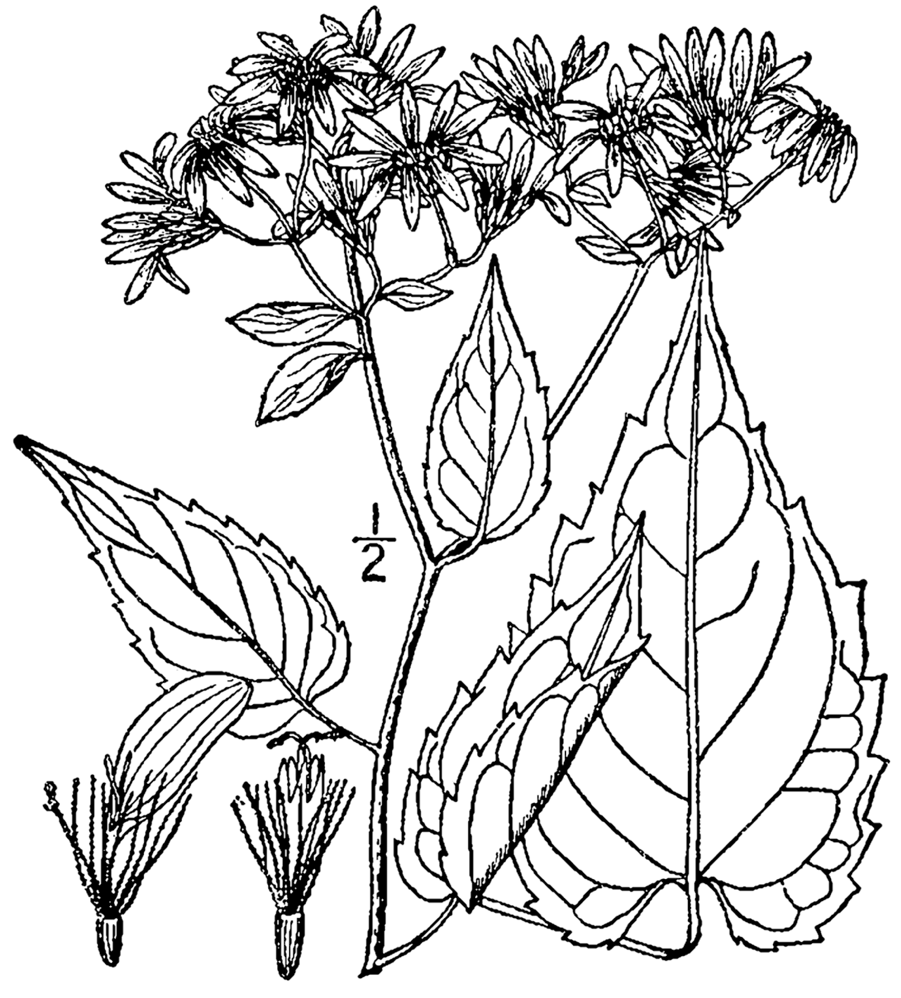 Eurybia divaricata (L.) G.L. Nesom - white wood aster (syn. Aster divaricatus)